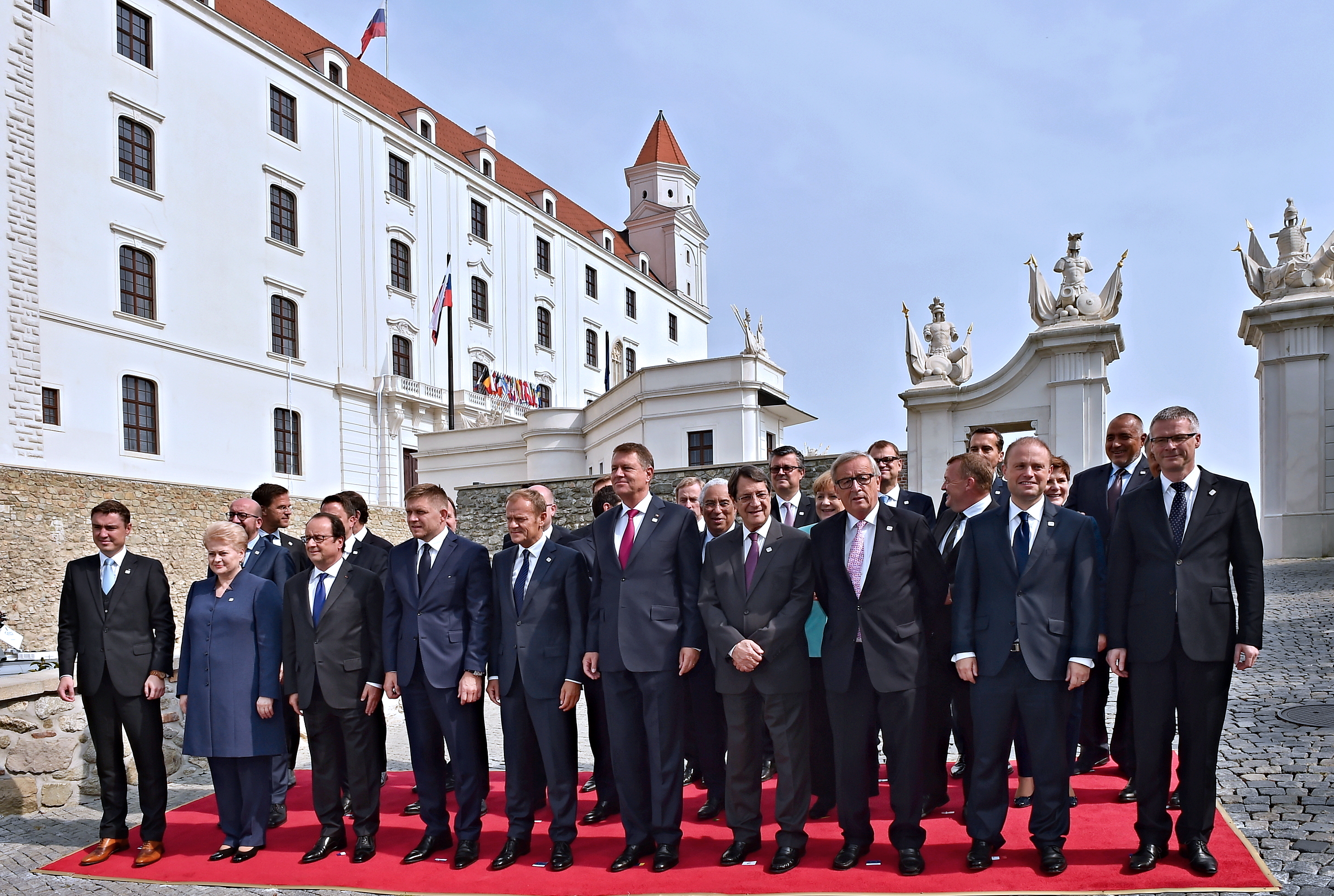 Group photograph of the European Council in front of Bratislava Castle during an EU summit